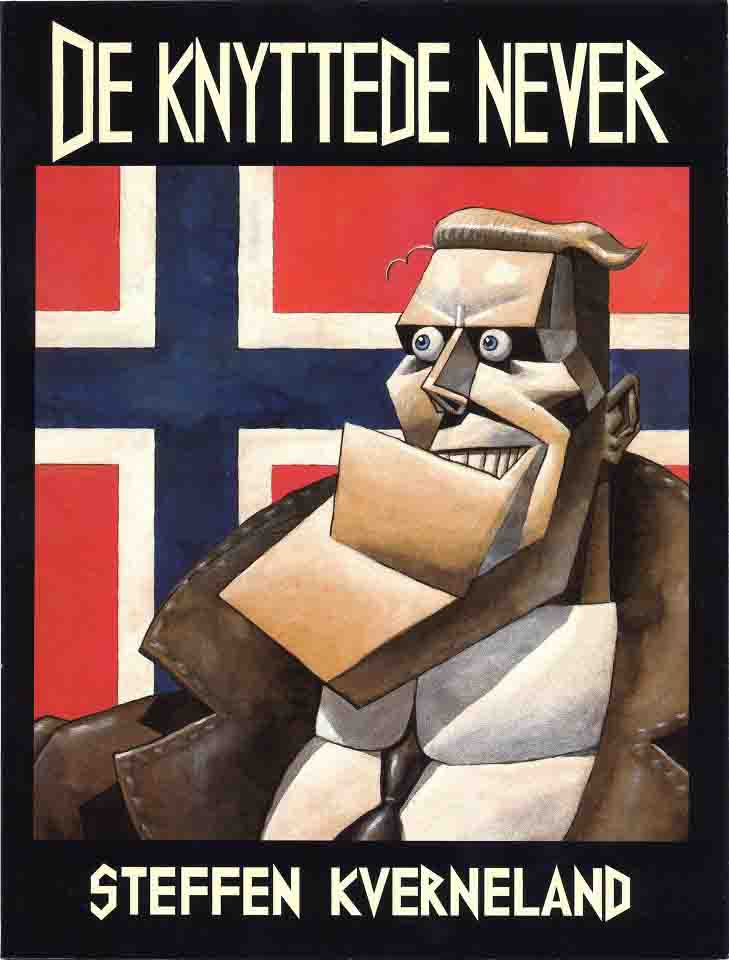 front cover of the comics album De knyttede never (=The clenched fists) by the Norwegian comics artist Steffen Kverneland. Based on the novel with the same title by Øvre Richter Frich (1911)